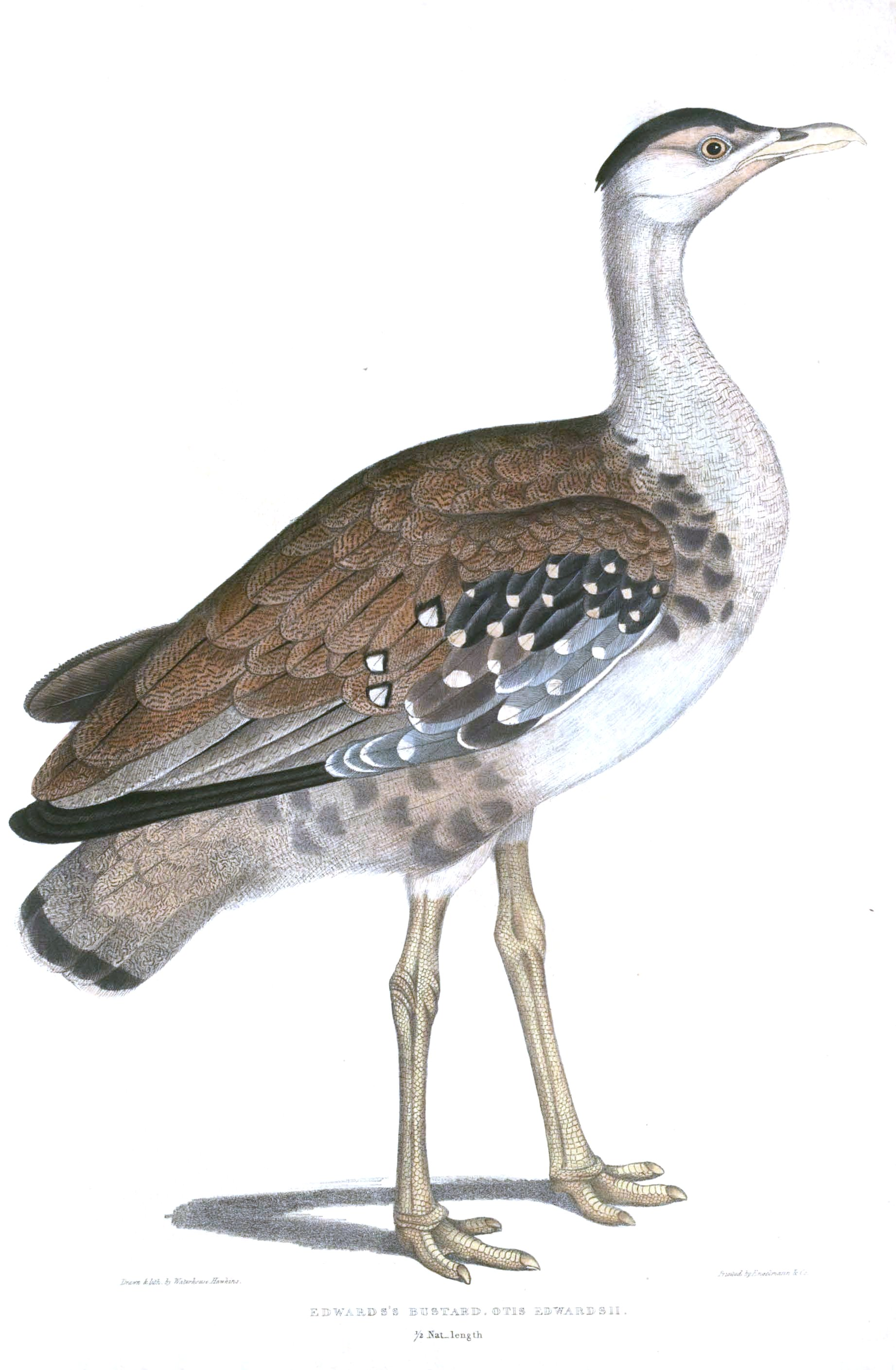 « Otis edwardsii » = Ardeotis nigriceps (Great Indian Bustard)